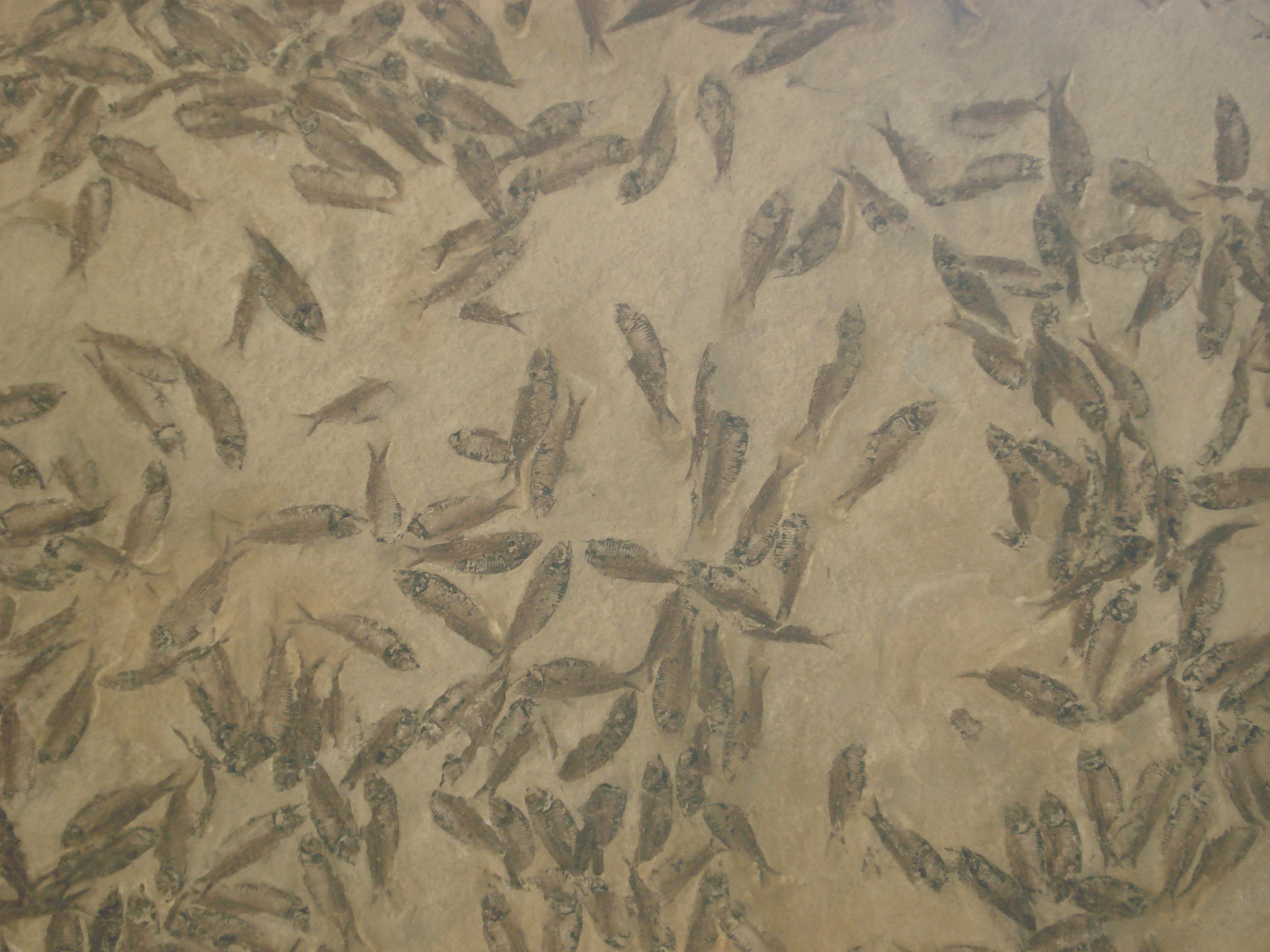 fossil of knightia